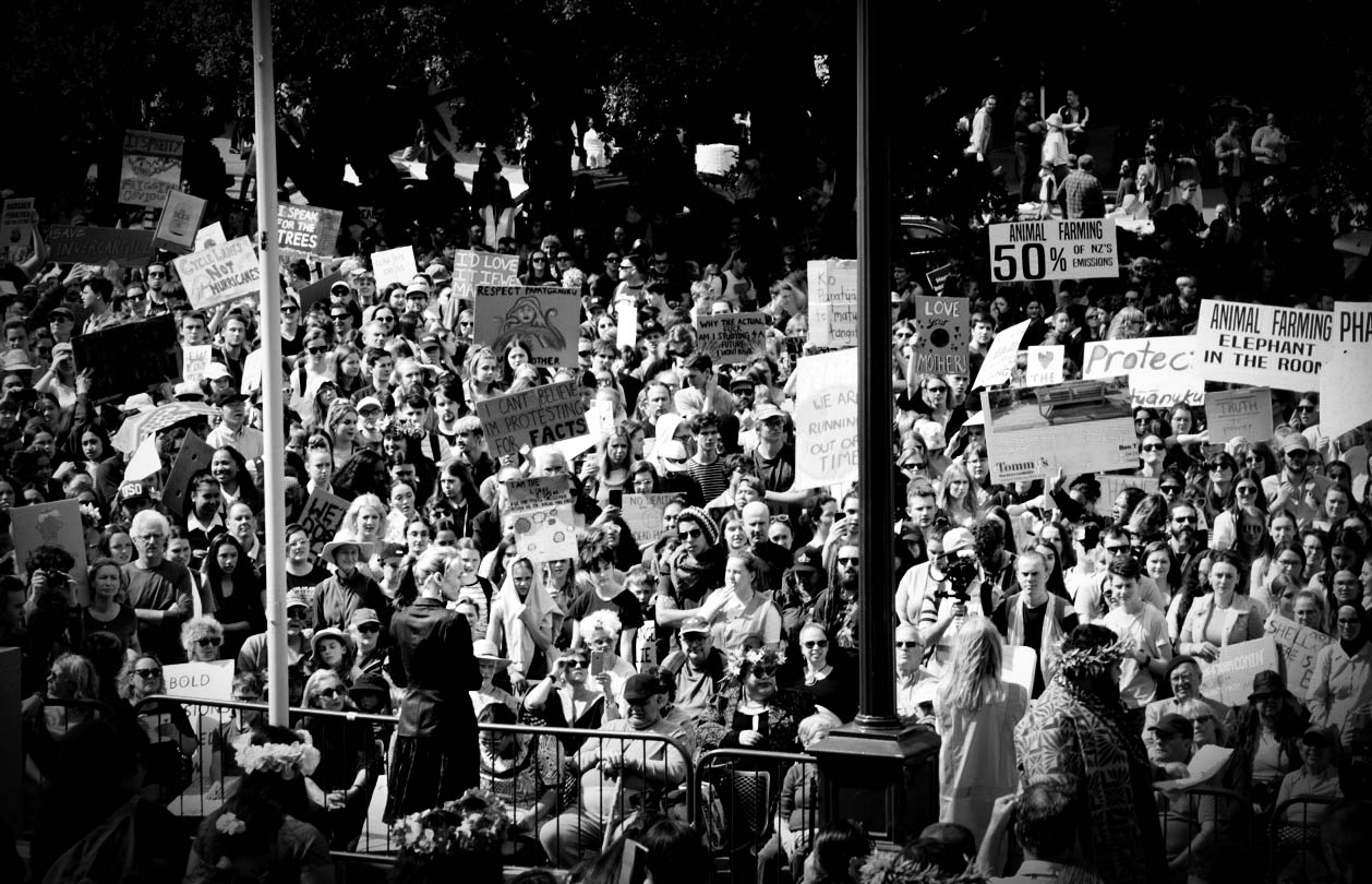 New Zealand Parliament Climate Strike Protest